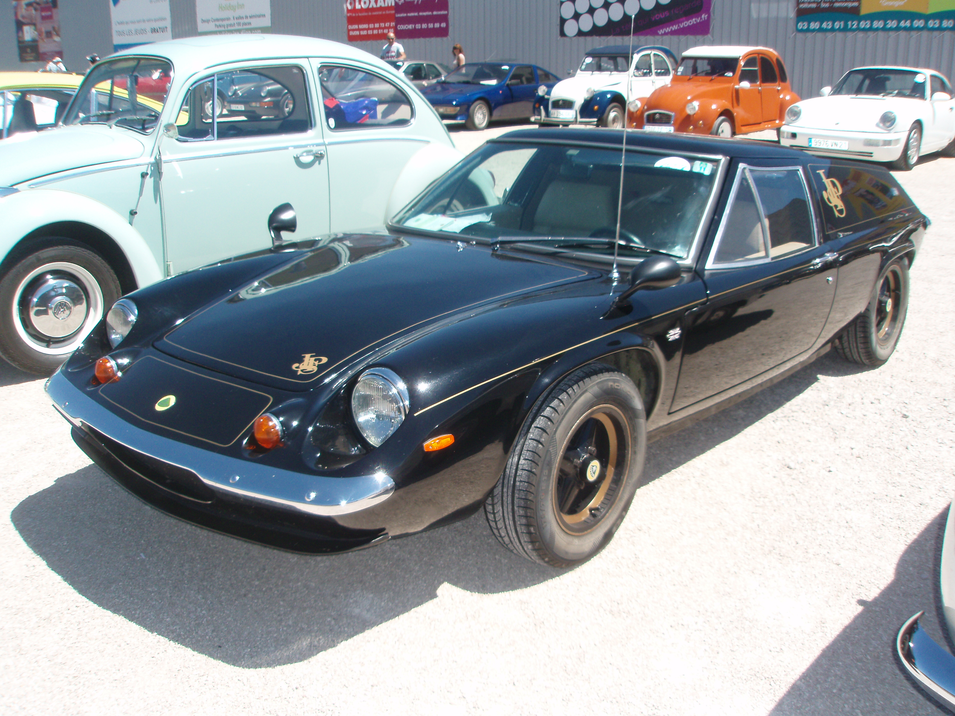 A Lotus Europa Series 2 Special with aftermarket "John Player Special" markings. The real Special has the cut down rear end of the Type 74.